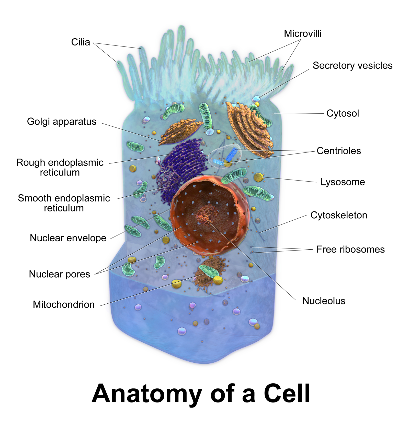 Anatomy of a Cell. See a full animation of this medical topic.